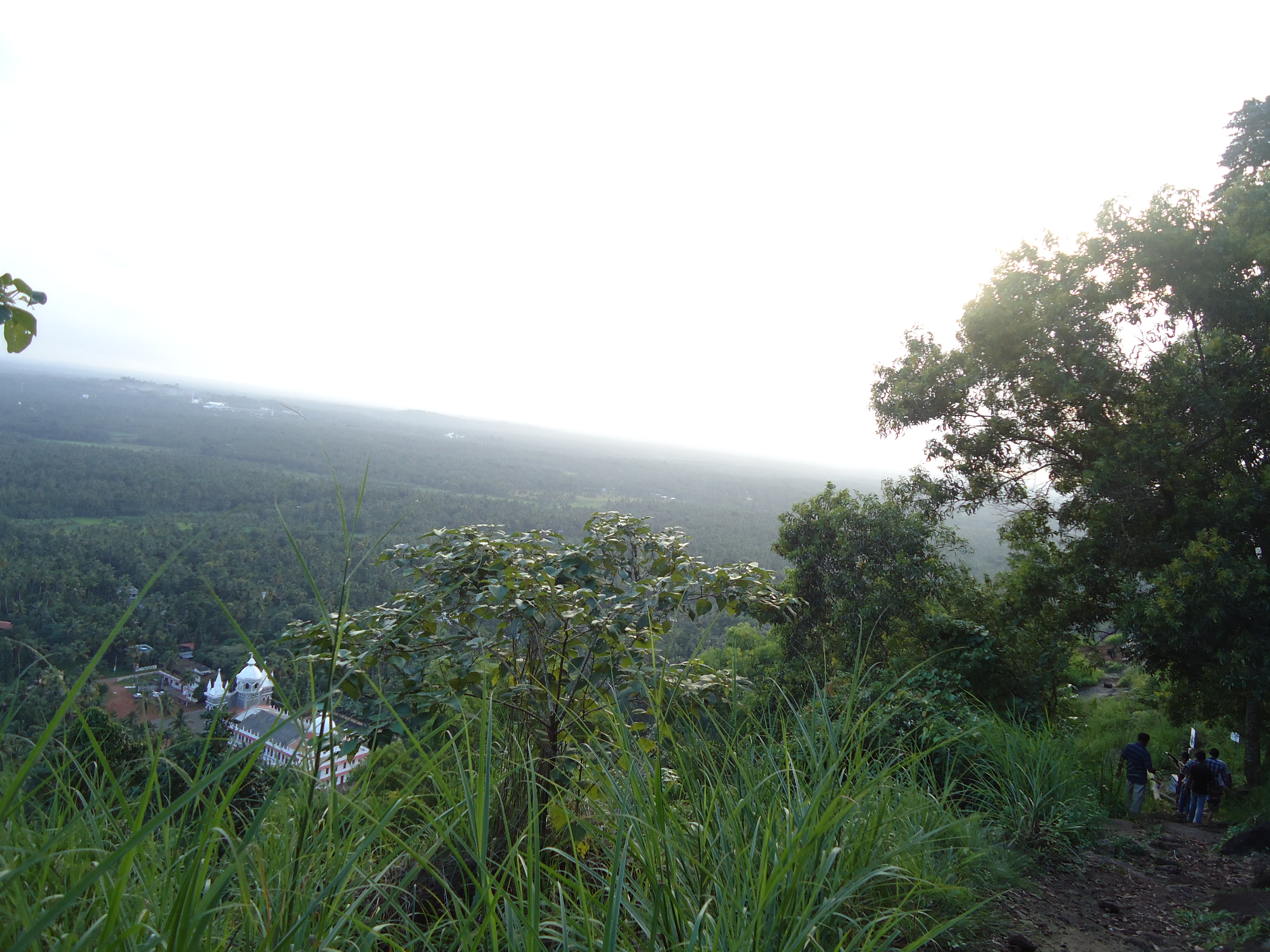 A view from Kanakamala hill to the bottom. Forest and a church in background